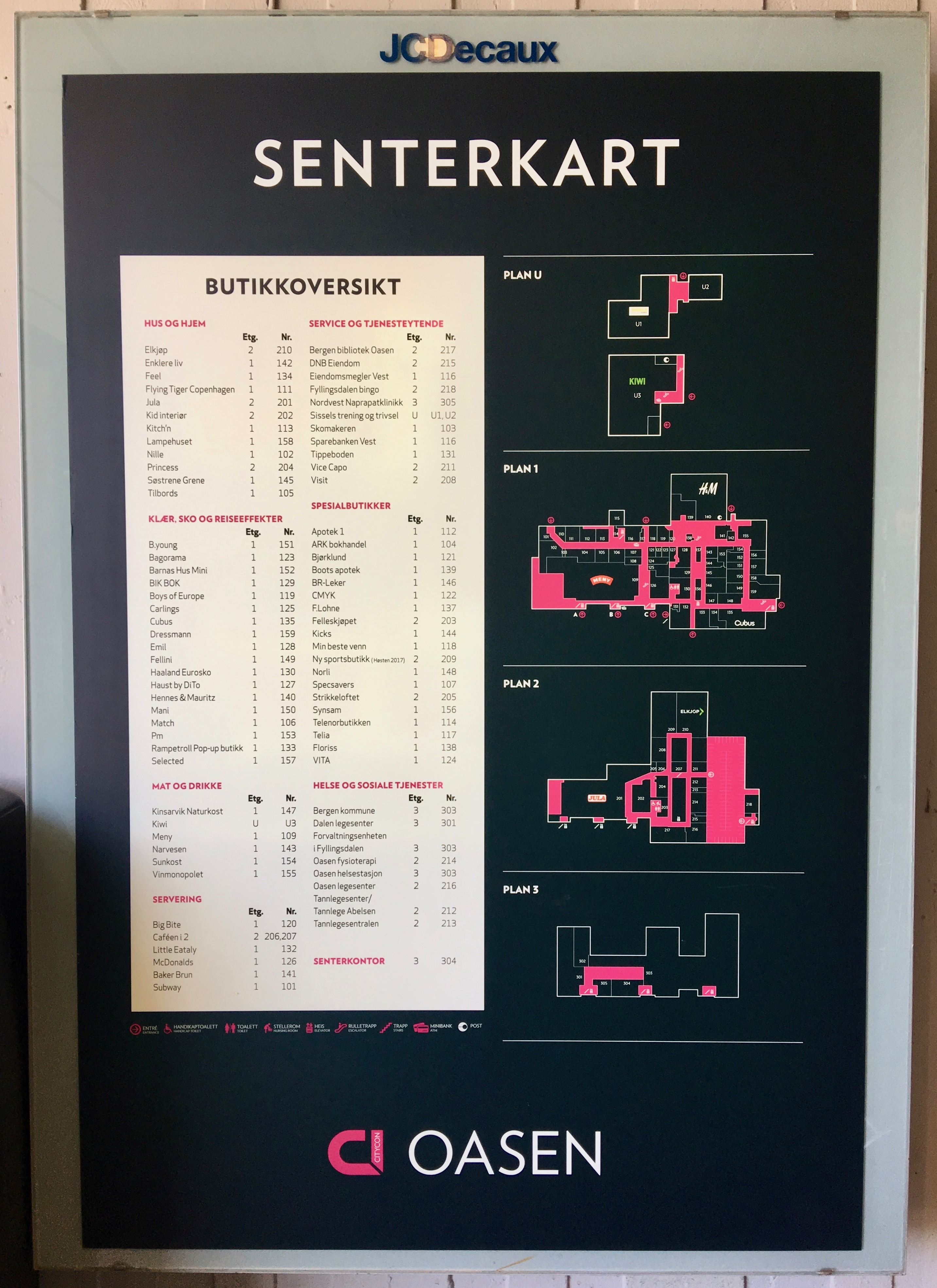 Oasen shopping mall (kjøpesenter, bydelssenter) in Fyllingsdalen, Bergen, Hordaland, Norway. Floor map with shops. Photo 2018-03-17